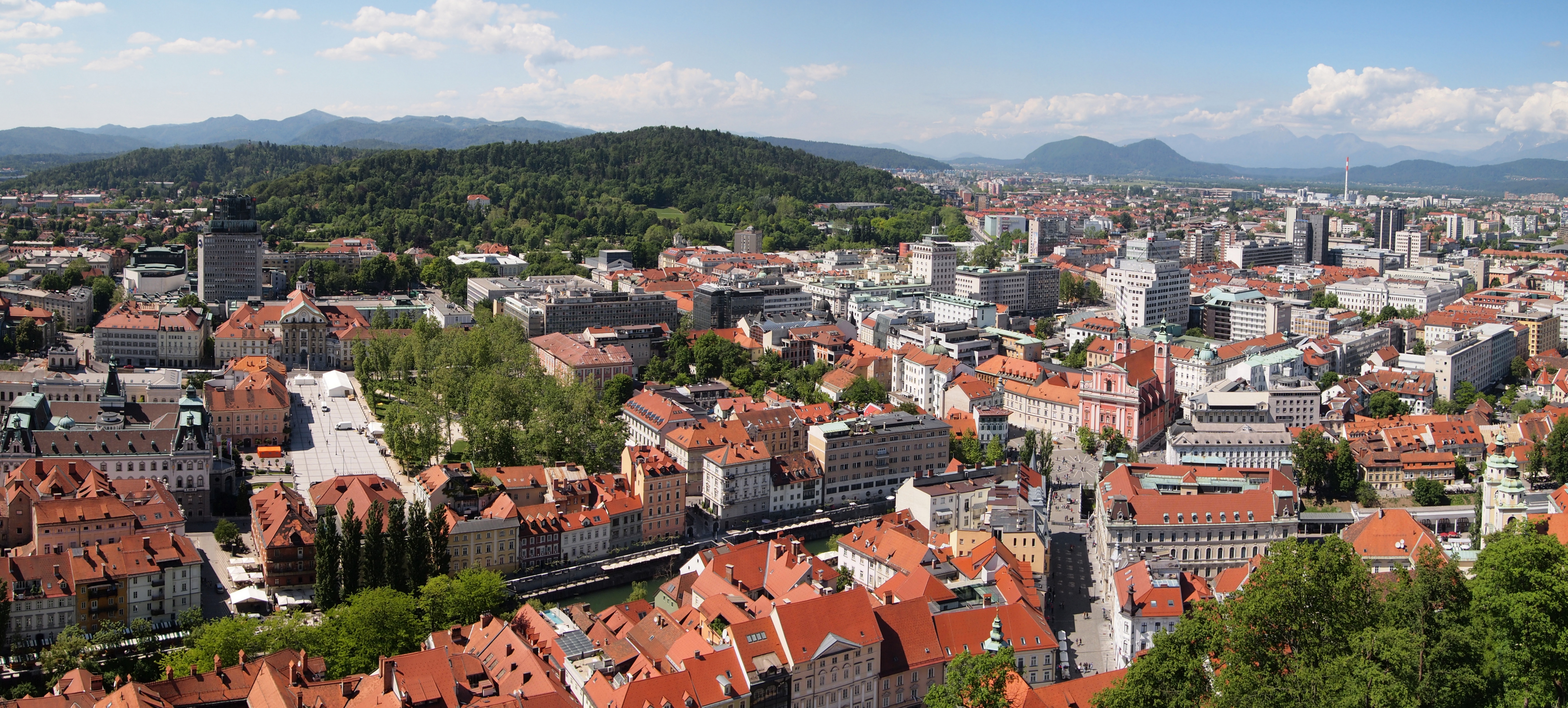 View of Ljubljana. This photograph was taken with a Olympus E-PL1.